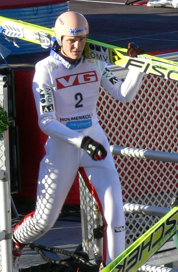 Roland Müller at World Cup in Holmenkollen, Norway